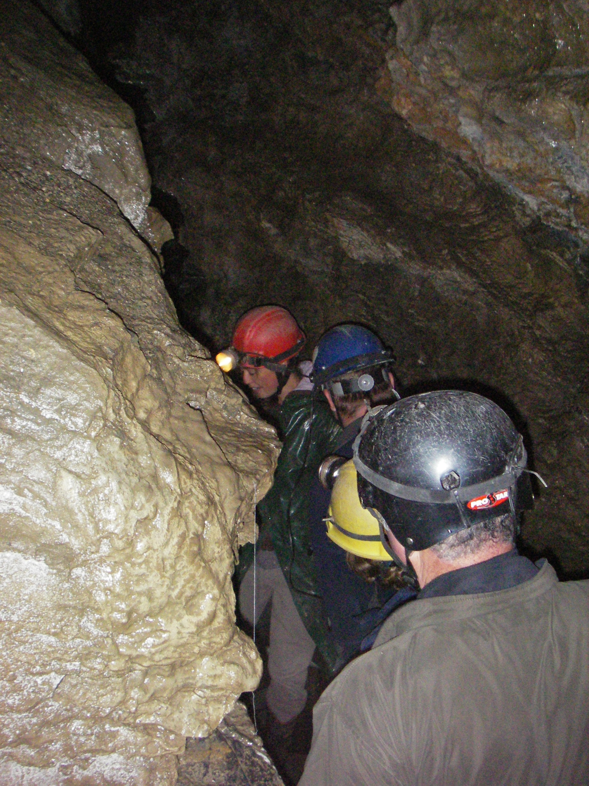 Cody Caves